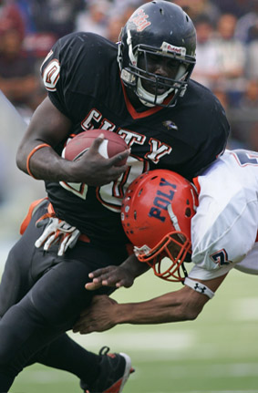 I took this picture at the 2006 Citypoly game. to be used on any Baltimore City College related page.